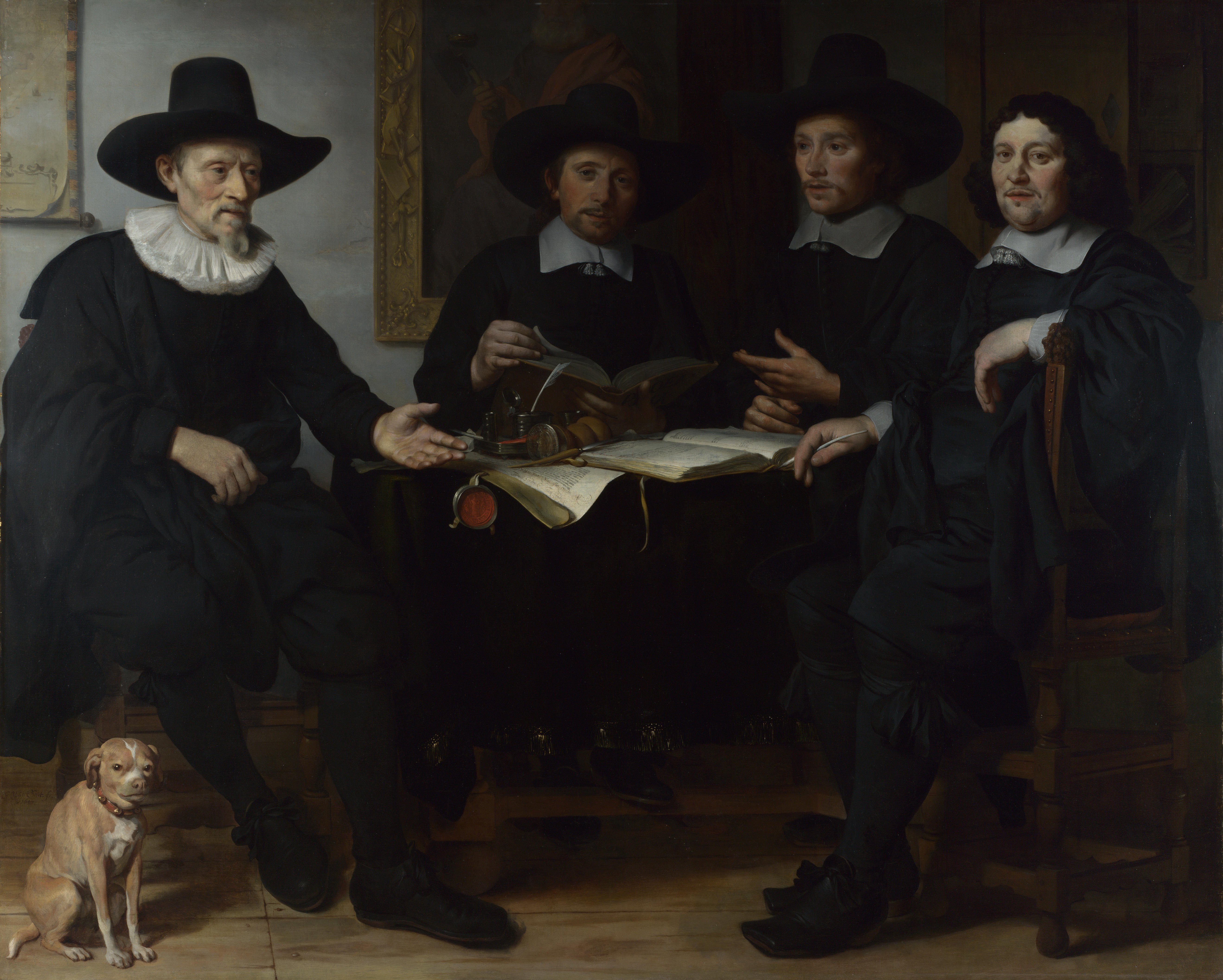 National Gallery, London